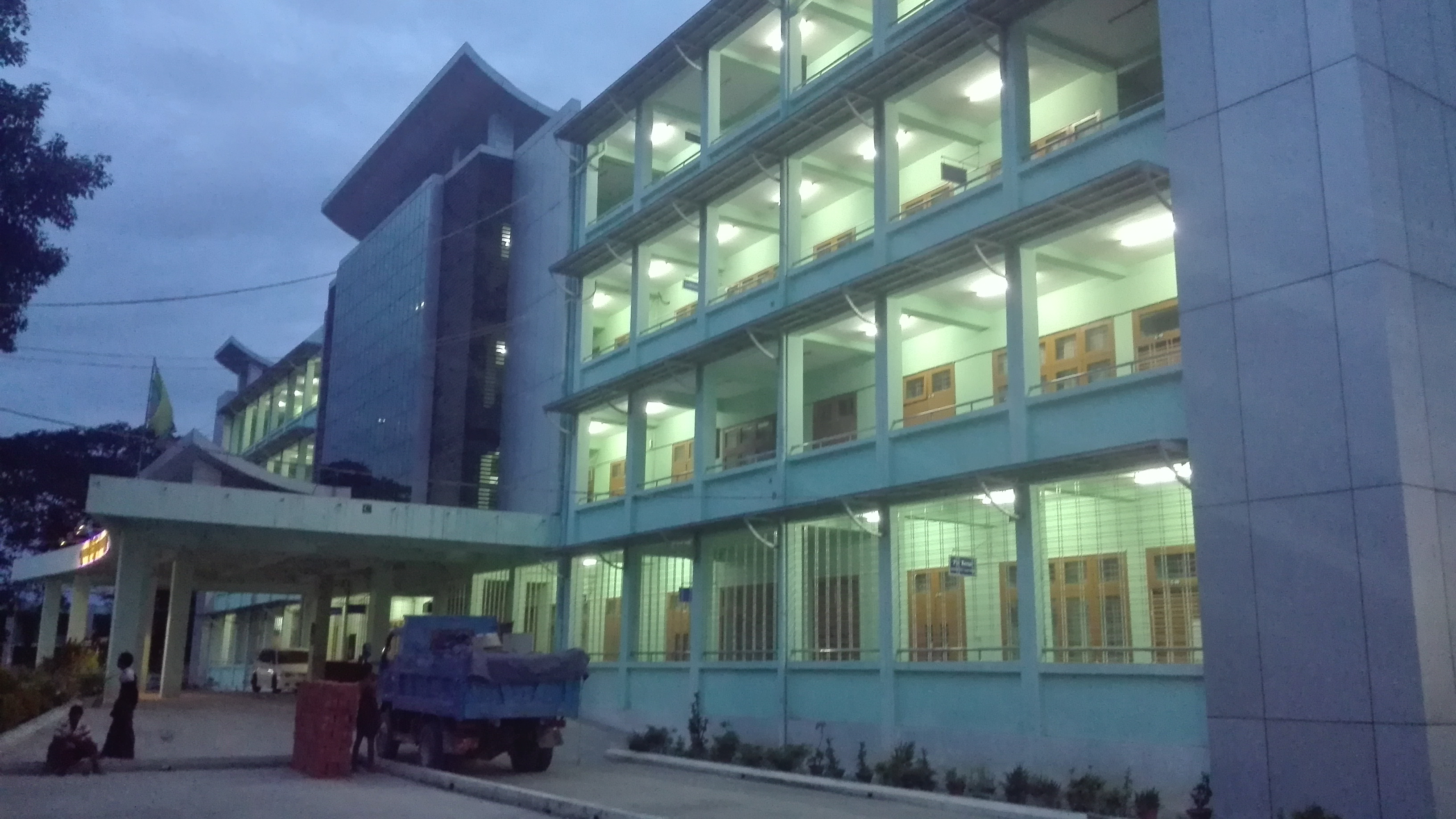 MUFL at Night